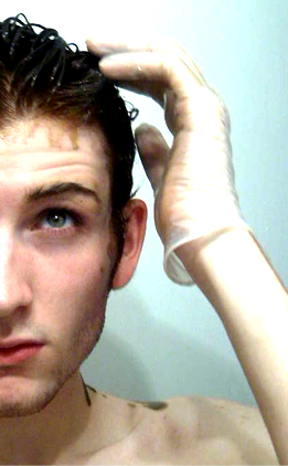 Colton Cotton dyes his hair using the balayage method.